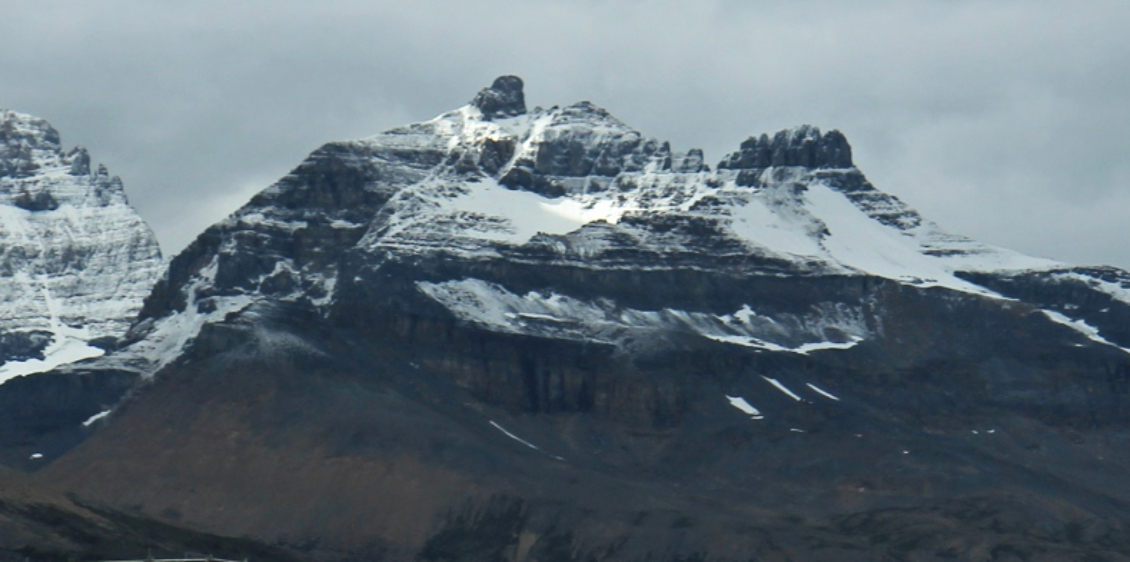 Mushroom Peak seen from Glacier Skywalk. Jasper Park, Alberta, Canada